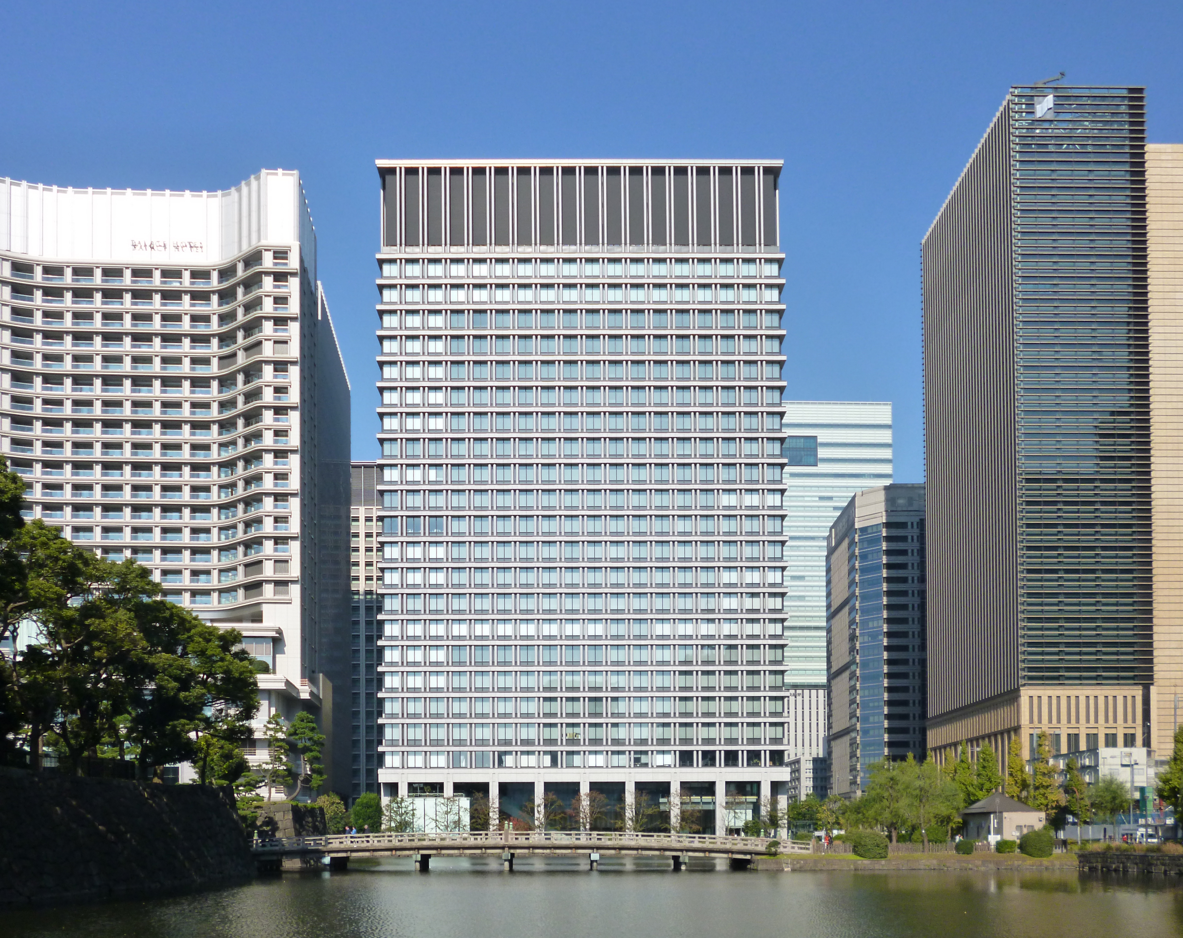 Nissay Marunouchi Garden Tower in Marunouchi, Chiyoda, Tokyo, Japan. The headquarters of Mitsui & Co.